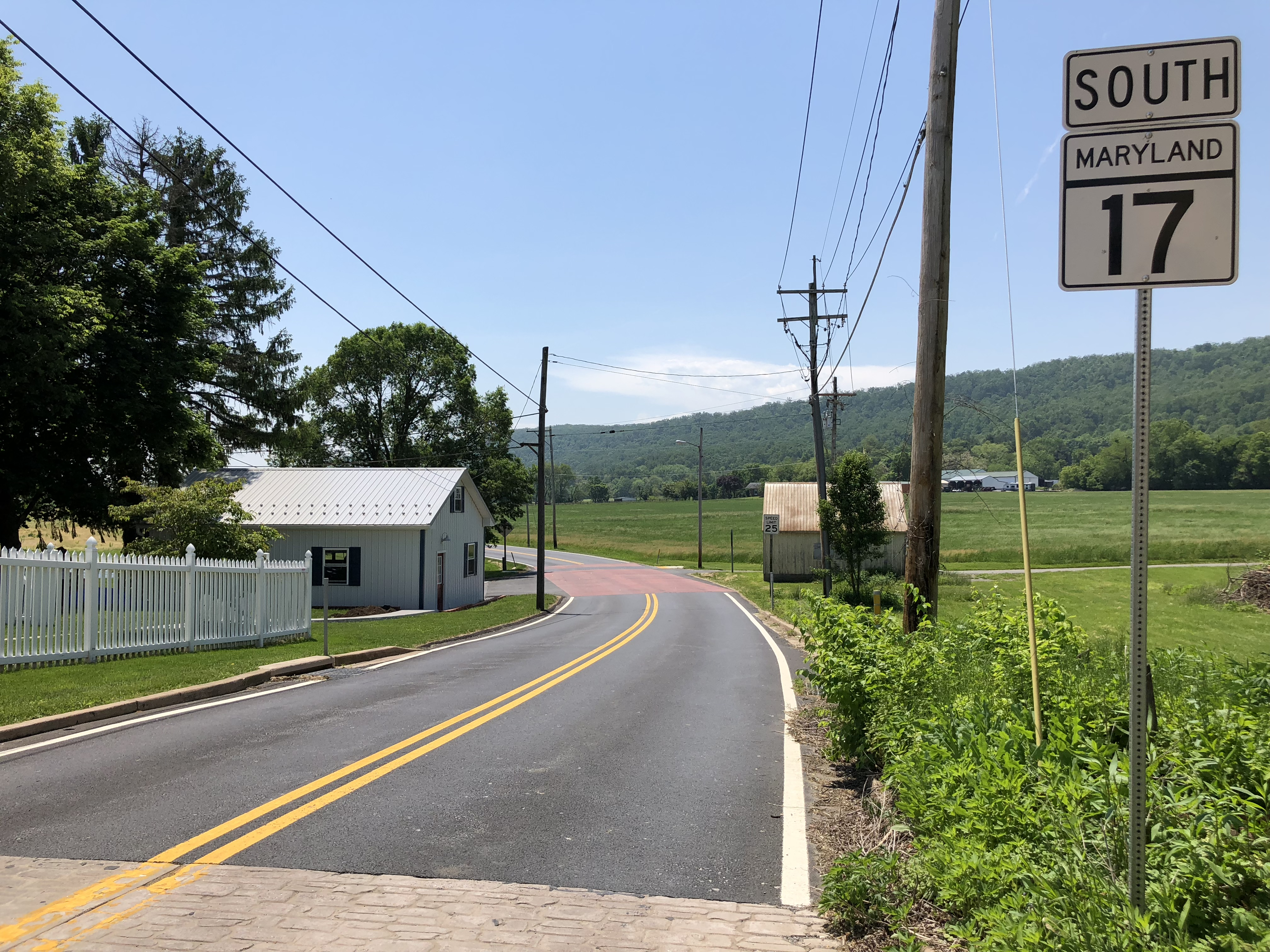 View south along Maryland State Route 17 (Potomac Street) between Main Street and Lake Side Drive in Burkittsville, Frederick County, Maryland